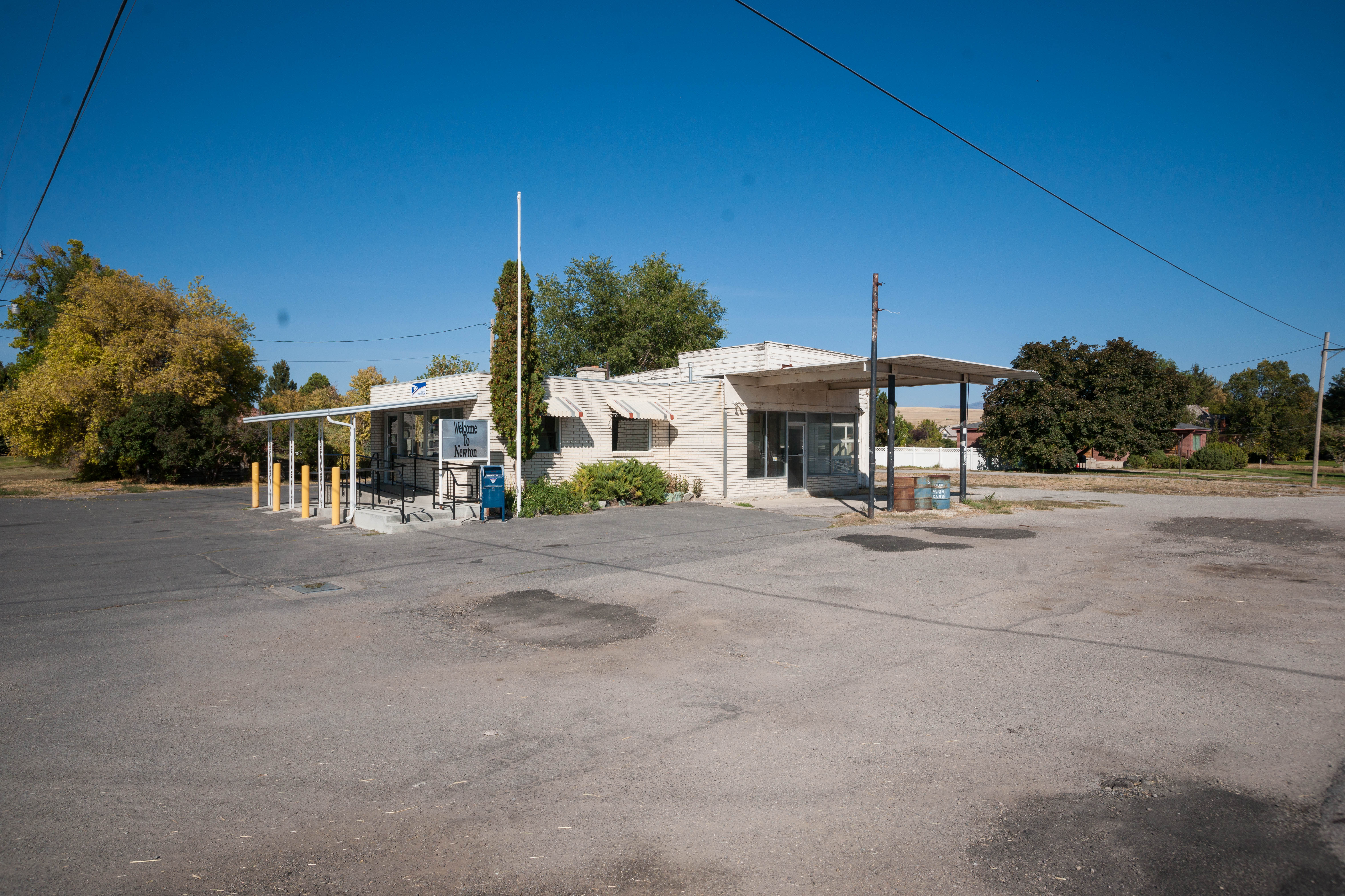 From